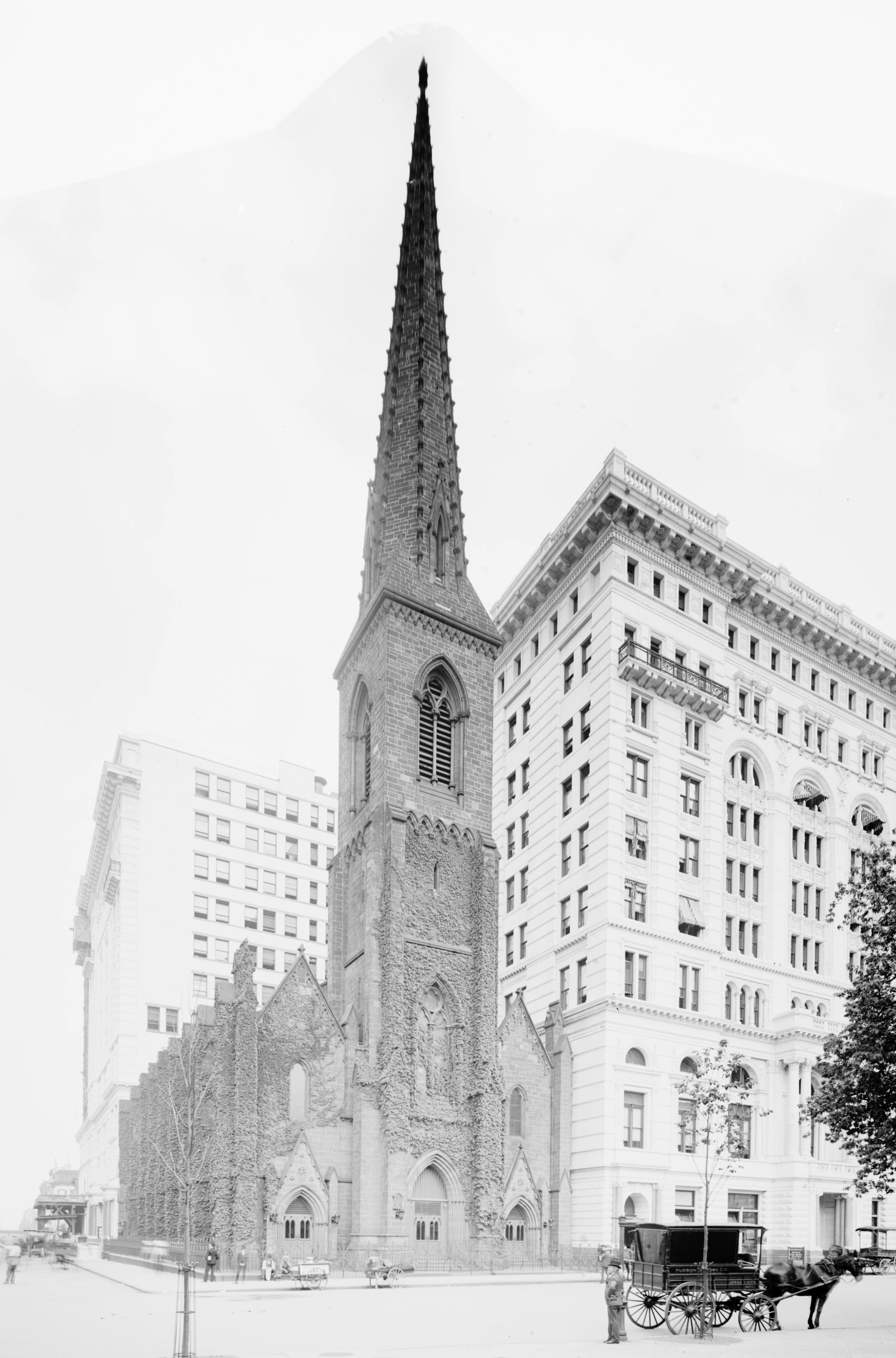 Madison square Presbyterian Church, the first of that name, built in 1854 and razed in 1906. Designed by Richard Upjohn. Title: Madison Avenue Presbyterian Church, New York Date Created/Published: c1903. Medium: 1 negative : glass ; 8 x 10 in. Part of: Detroit Publishing Company Photograph Collection Reproduction Number: LC-D4-16670 (b&w glass neg.) Call Number: LC-D4-16670 [P&P] Repository: Library of Congress Prints and Photographs Division Washington, D.C. 20540 USA